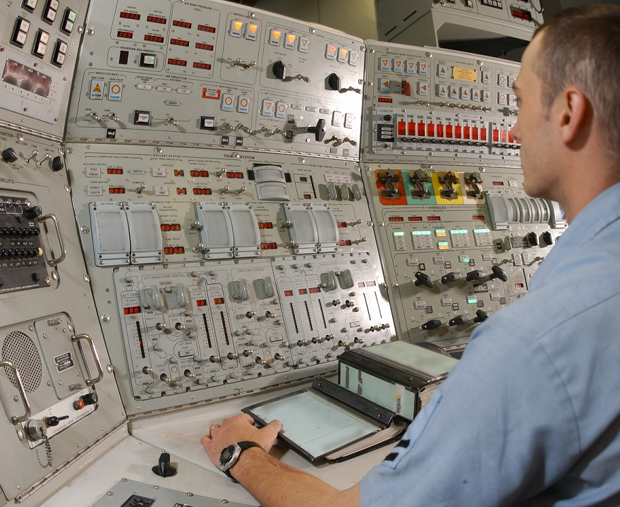 Sailors utilize a simulator for refresher training at King's Bay's Trident Submarine Training Facility (TTF). Note: This is a cropped photo of the original. The original is located at